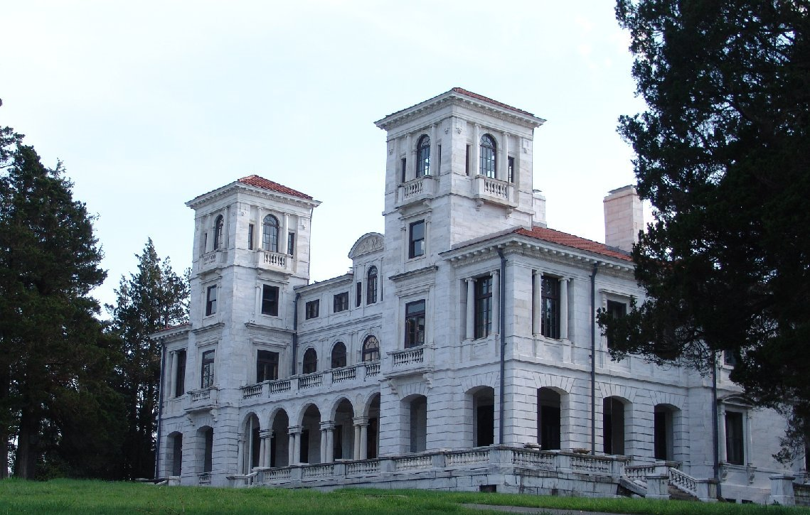 This photo was taken on April 24, 2008, from a vehicle while driving through the area.